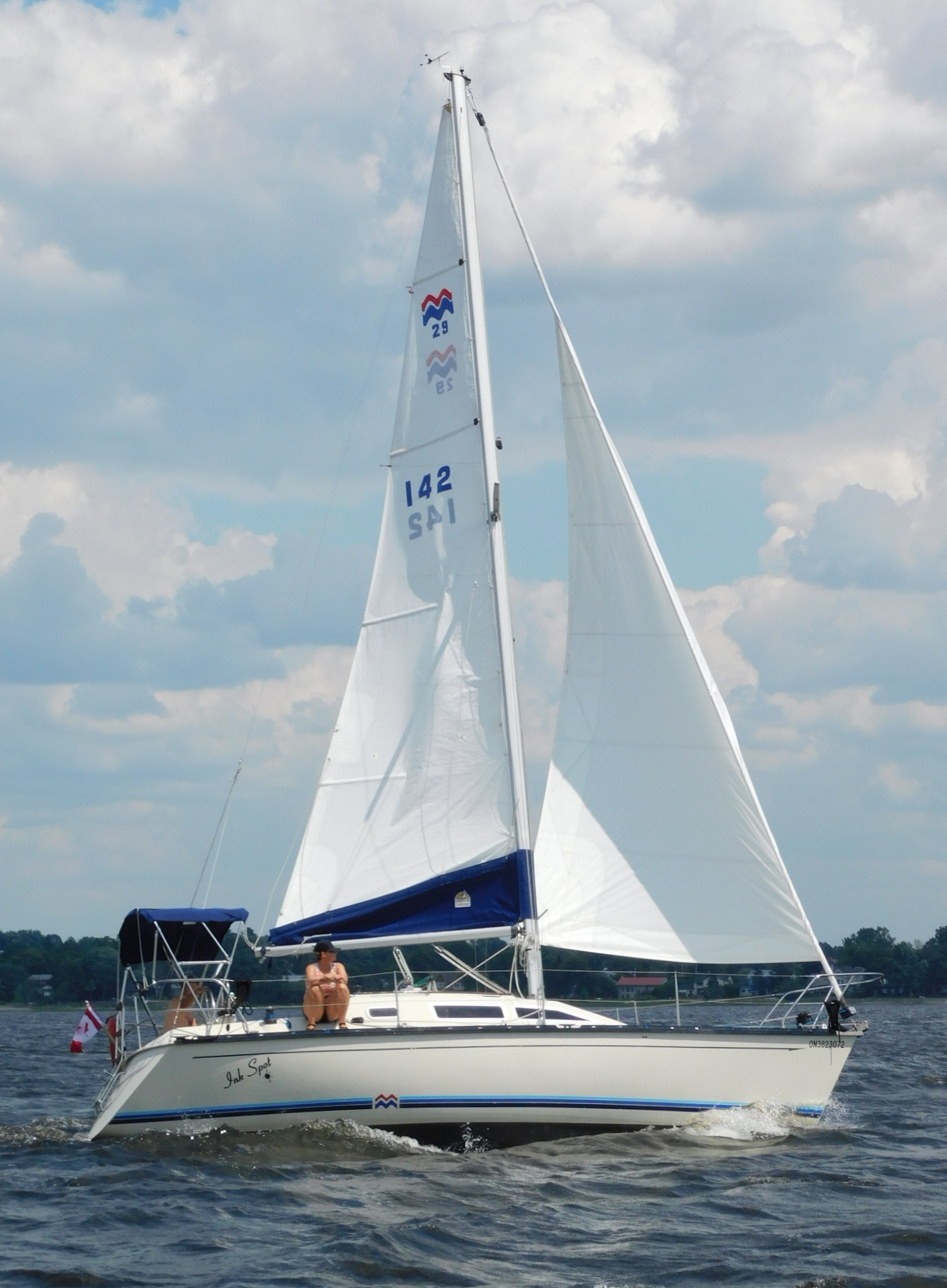 A Mirage 29 sailboat named Ink Spot.